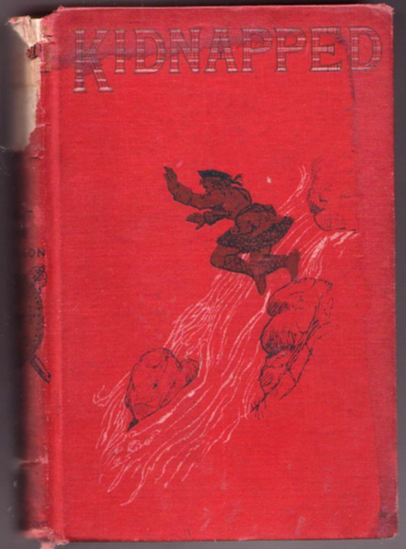 Robert Louis Stevenson: Kidnapped (Charles Scribner's Sons 1886 New York) first edition clothbound hardback.